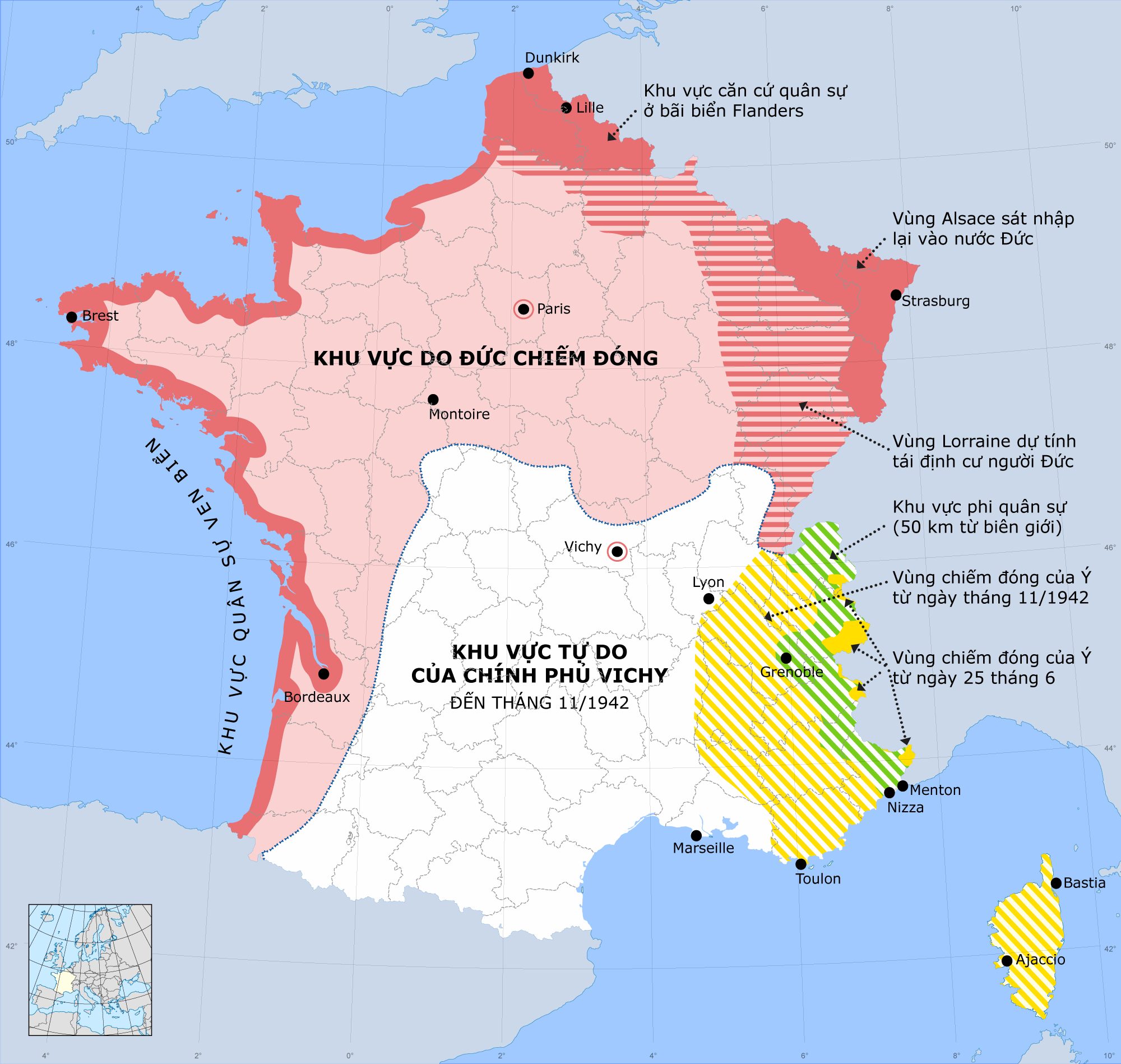 Occupation zones of France during the Second World War, German version